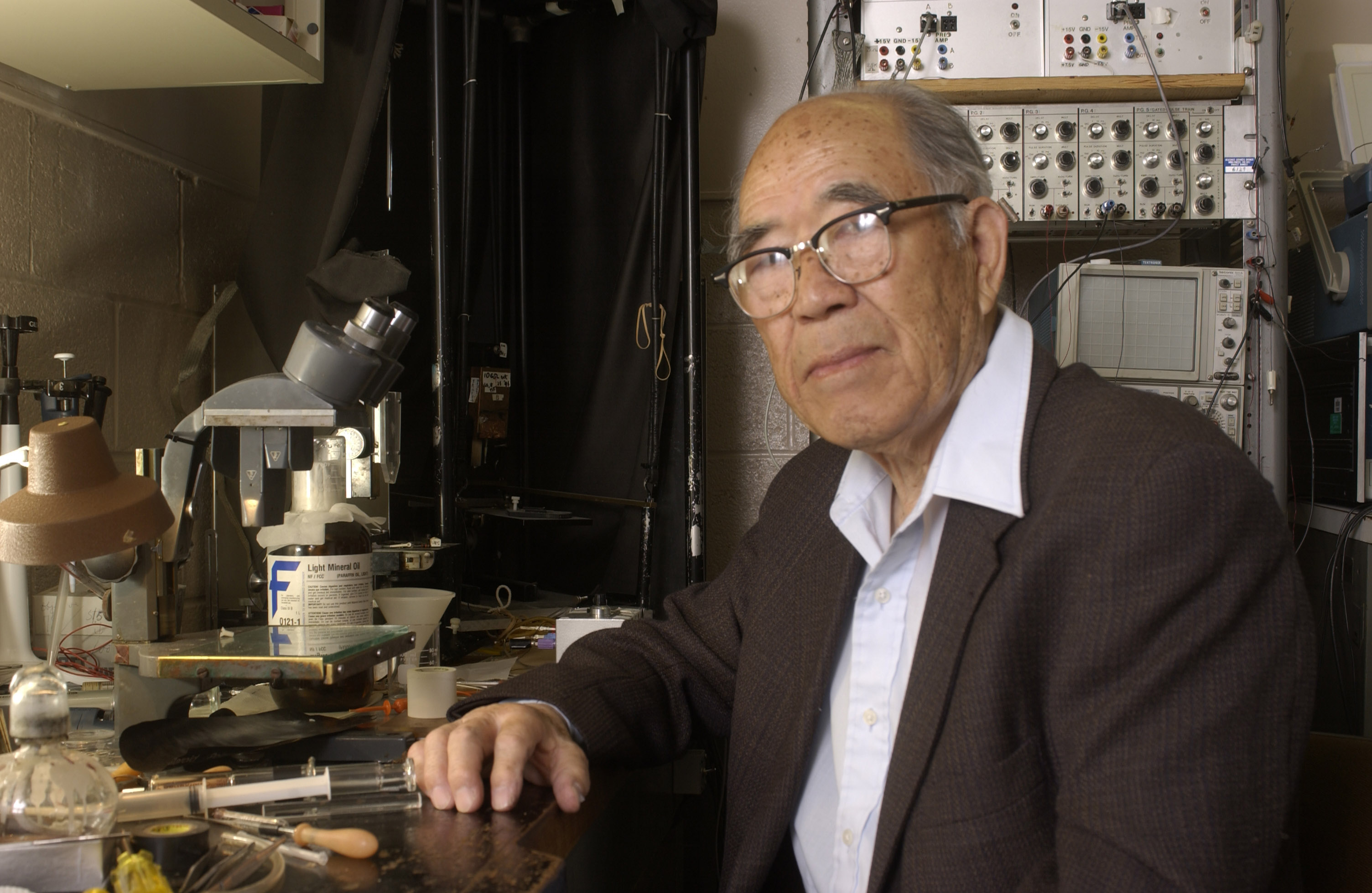 Scientist Emeritus, NICHD Chief and Senior Research Scientist, Laboratory of Neurobiology, NIMH Senior Research Scientist, NINDB Tasaki discovered the insulating function of myelin and explained the speed with which nerve impulses can travel along myelinated nerves. He came to the National Institute of Neurological Diseases and Blindness in 1953, but also worked for the National Institute of Mental Health and National Institute of Child Health Disorders throughout his extensive career. His accomplishments, according to his obituary, included the use of dyes to observe physical changes in nerve membranes and measurements of the heat generated and absorbed by electrically stimulated nerves. Because he continued working at age 97, some estimated he was the oldest active duty scientist in the history of NIH. Throughout his time, he maintained a humility that “belied his extraordinary achievements.”